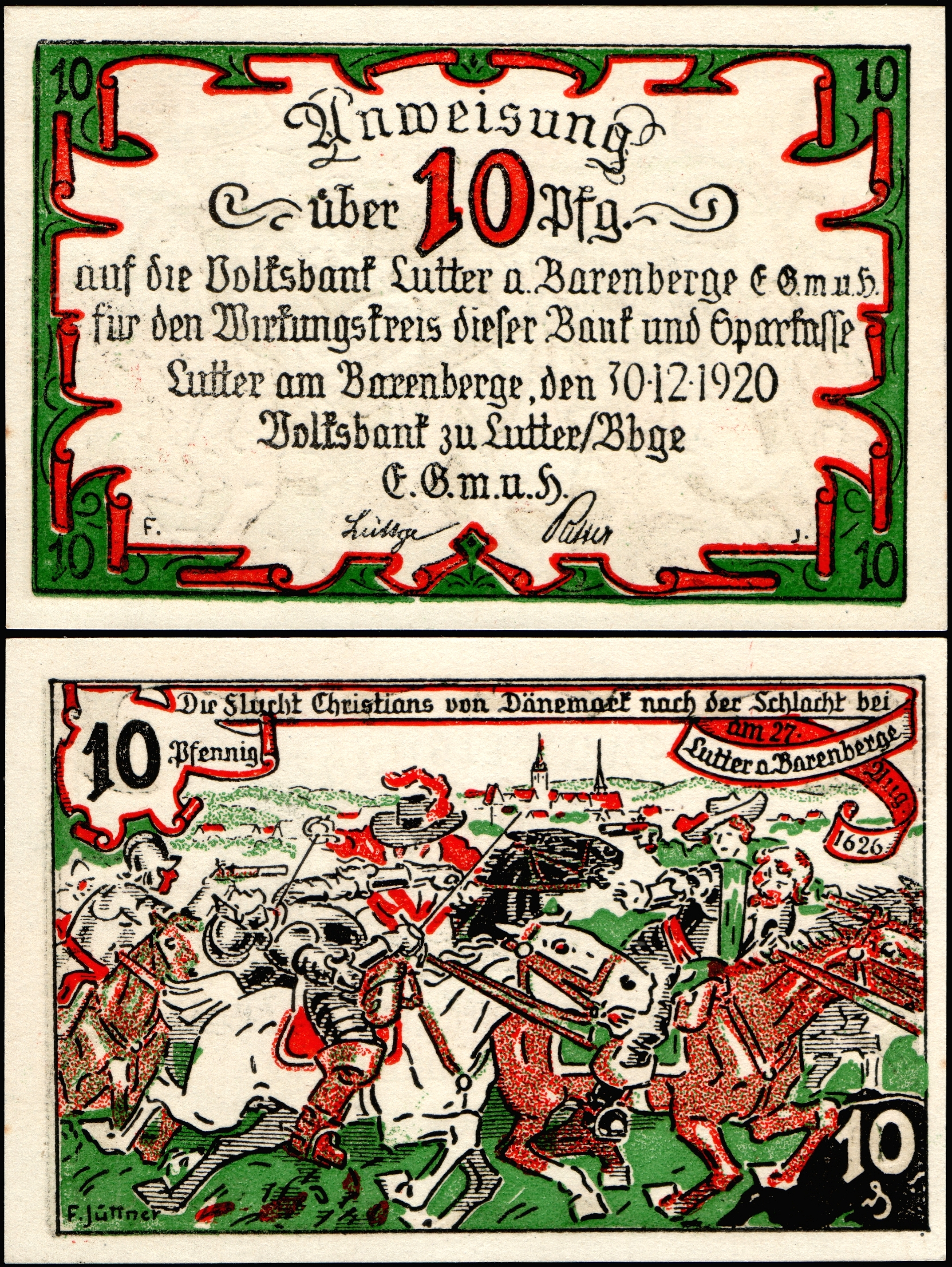 10 Pfennig Notgeld banknote (1920) of Lutter am Barenberge, size: 59 mm x 90 mm, signed: F. Jüttner. The reverse shows a battle scene of the Battle of Lutter on Aug. 27, 1626. Text: The flight of Christian of Denmark after the Battle of Lutter a. Barenberge - 1626.